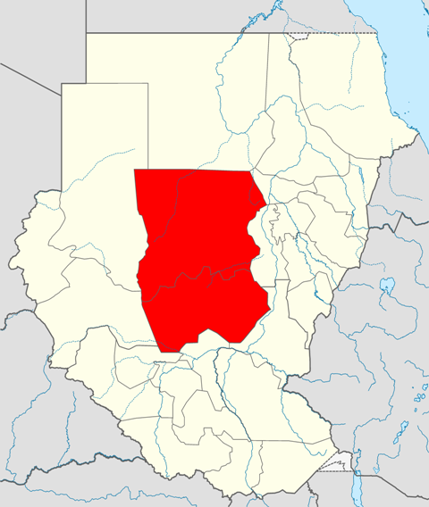 Map of Kurdufan region — in pre-2011 Sudan. Map showing former Southern Sudan, without post-2011 South Sudan political boundaries.